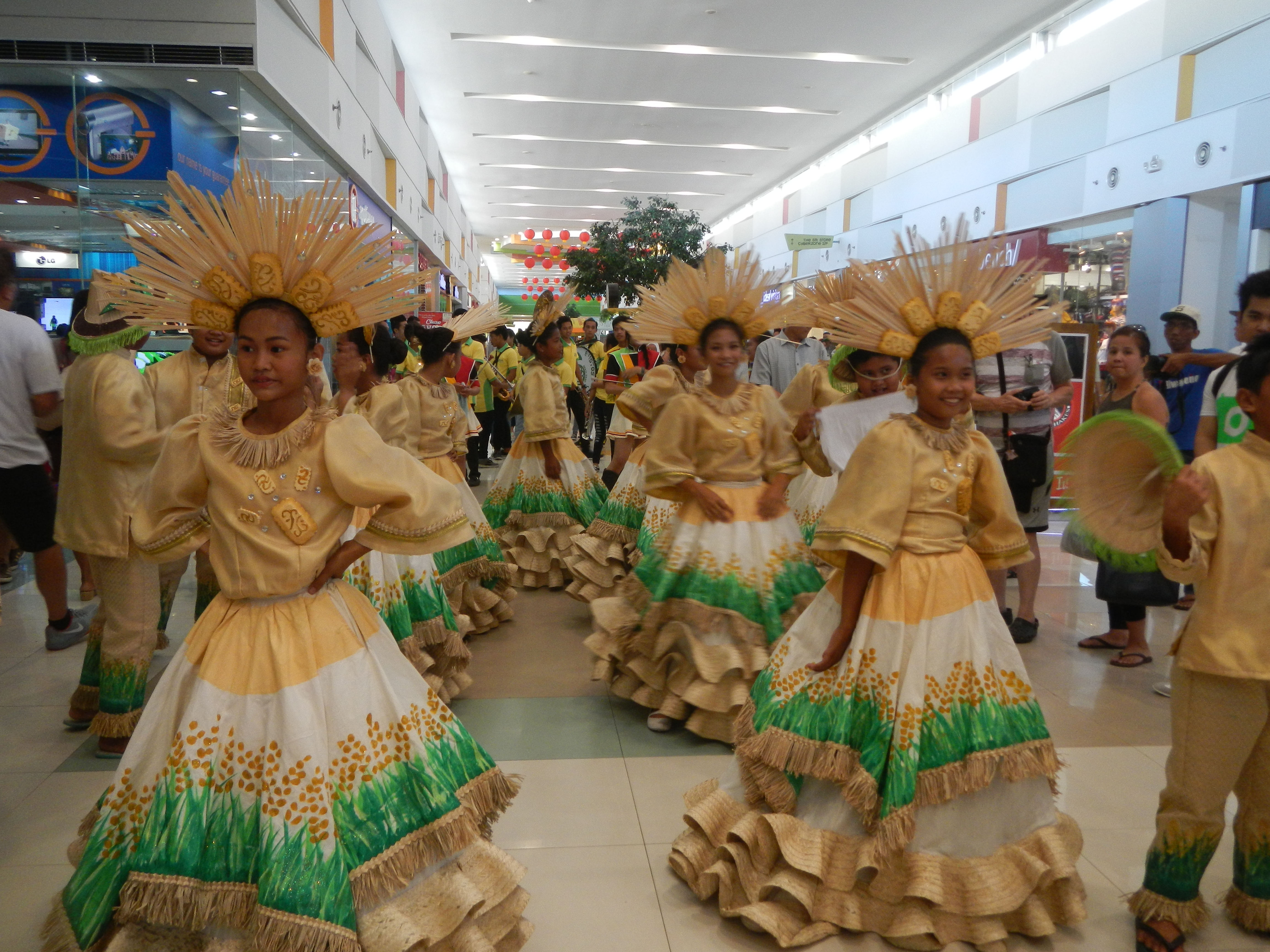 Minasa Festival, Exhibit 2016 (Bustos, Bulacan), (in SM City Baliuag along Pan-Philippine Highway, also known as the Maharlika "Nobility/freeman" Highway or Asian Highway 26, Cagayan Valley Road; Note: I hereby certify that all these photos, including all the exhibits, pictures, were allowed to be taken and are under the assistance of the Bustos Local Government Officers).